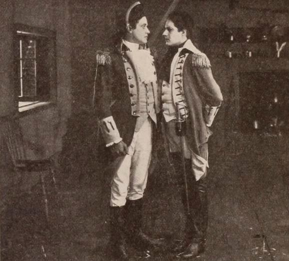 Still from the American historical drama film The Beautiful Mrs. Reynolds (1918) with Carlyle Blackwell as Alexander Hamilton and Arthur Ashley as Aaron Burr, on page 25 of the January 26, 1918 Exhibitors Herald.